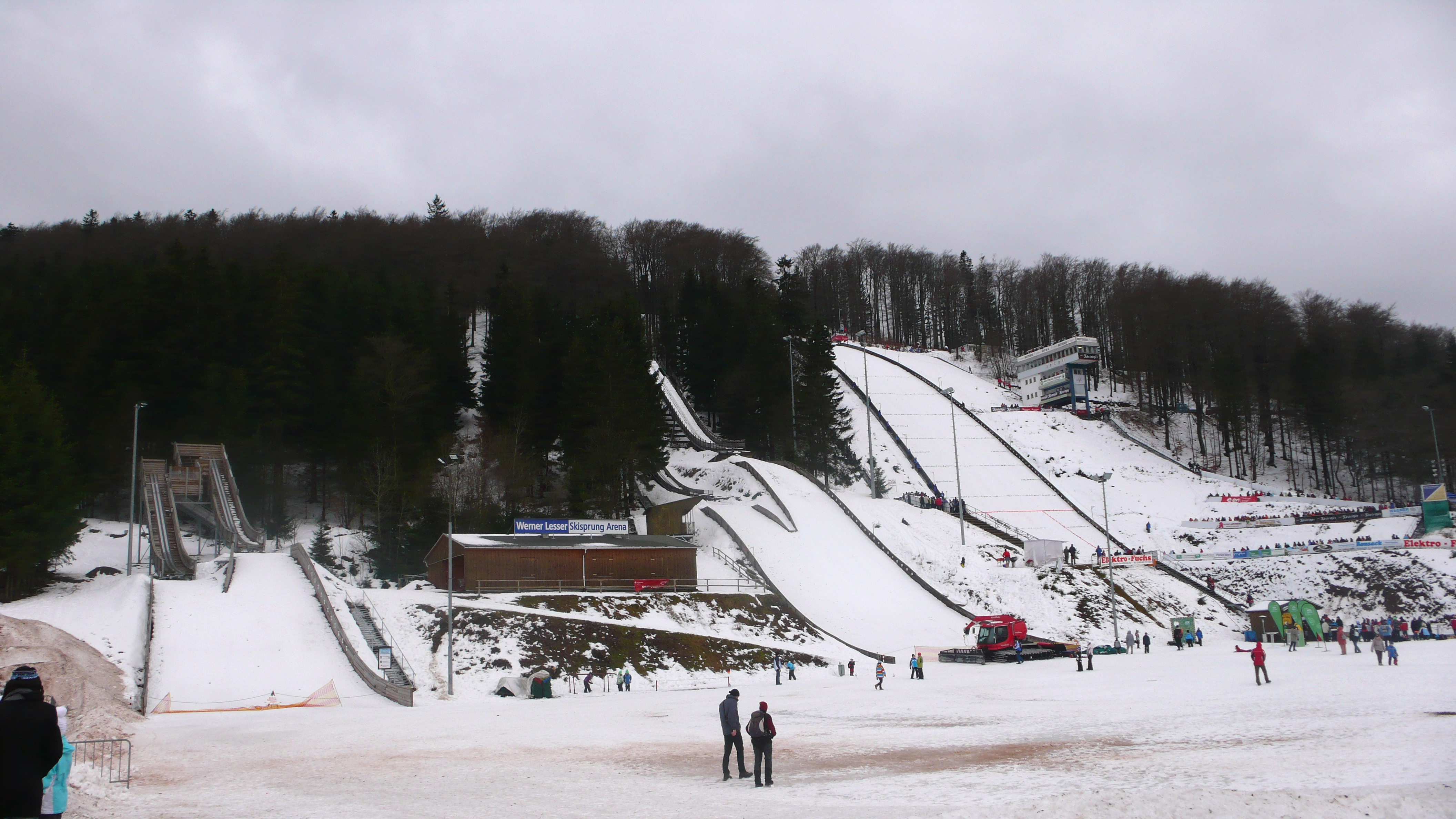 The jumping hill of "Inselbergschanze", in Brotterode